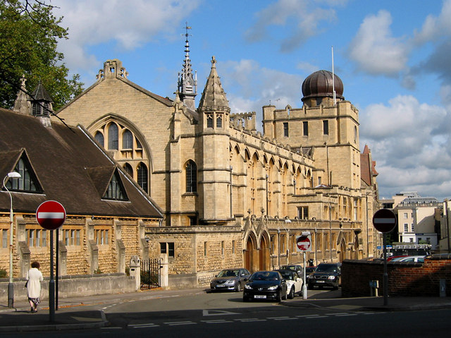 Montpellier Street The building is Cheltenham Ladies College